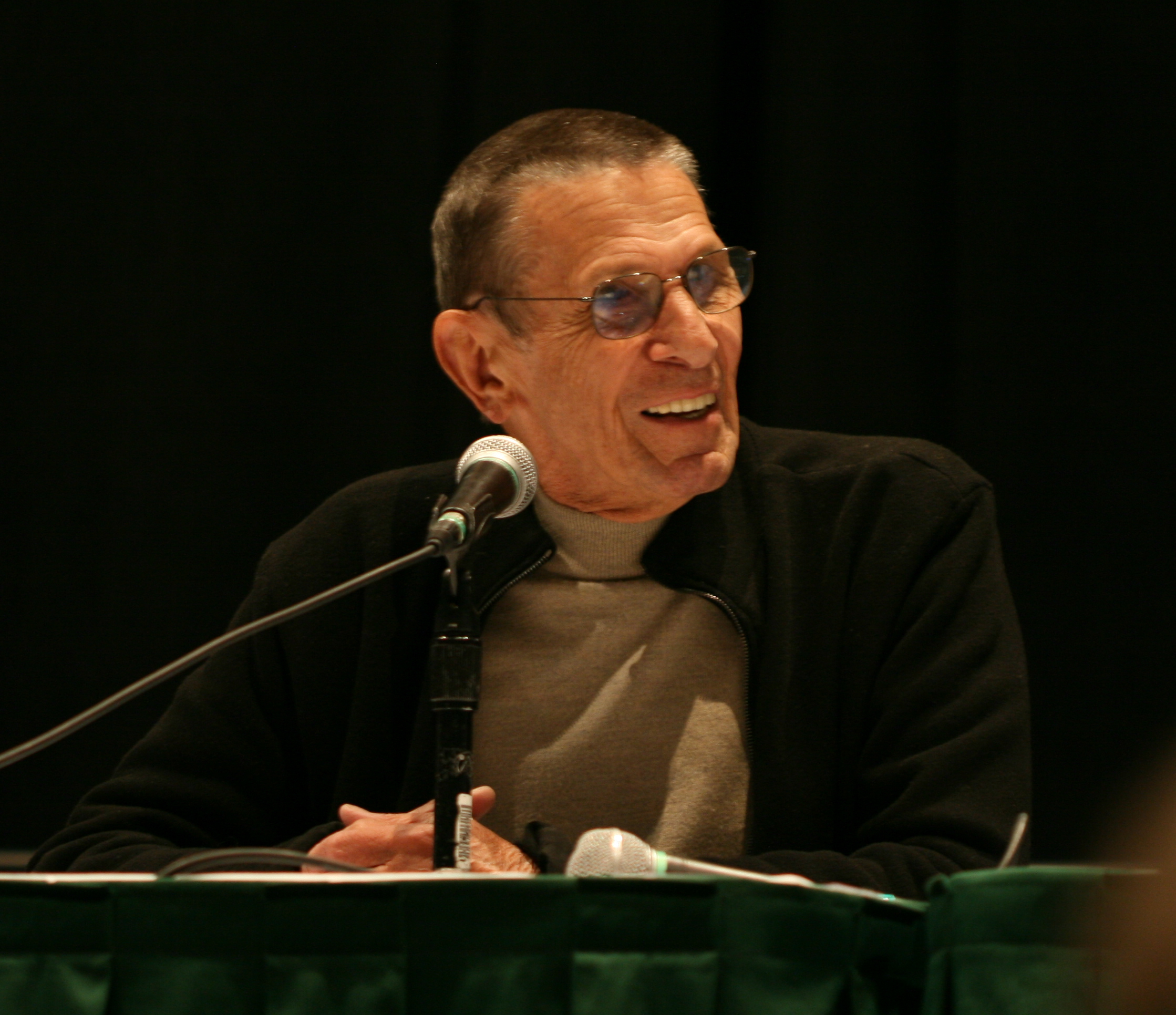 Leonard Nimoy speaking at his panel at Emerald City Comicon March 13, 2010